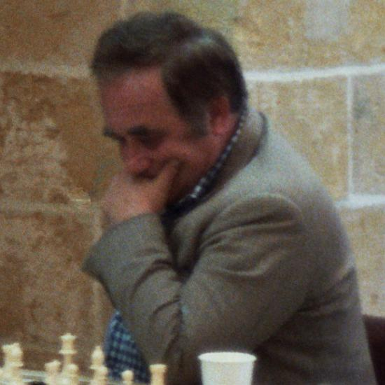 Efim Geller at the Chess Olympiad 1980 in Malta, Photographer Gerhard Hund.